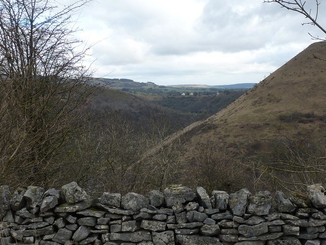 View from Brushfield Hough Looking east; down in the bottom of the dale is the River Wye, the hill on the right is Fin Cop, and the Monsal Head Hotel is the right of the three buildings